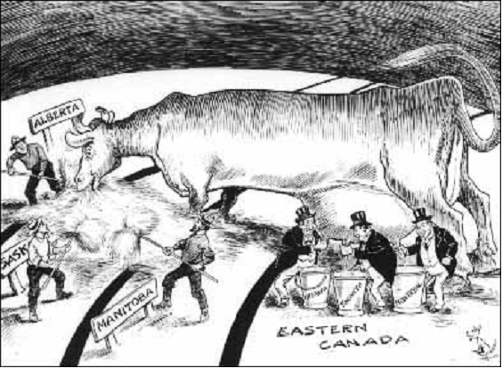 "The Milch Cow", cartoon from The Grain Growers Guide. The pails are labelled Ottawa, Toronto and Montreal